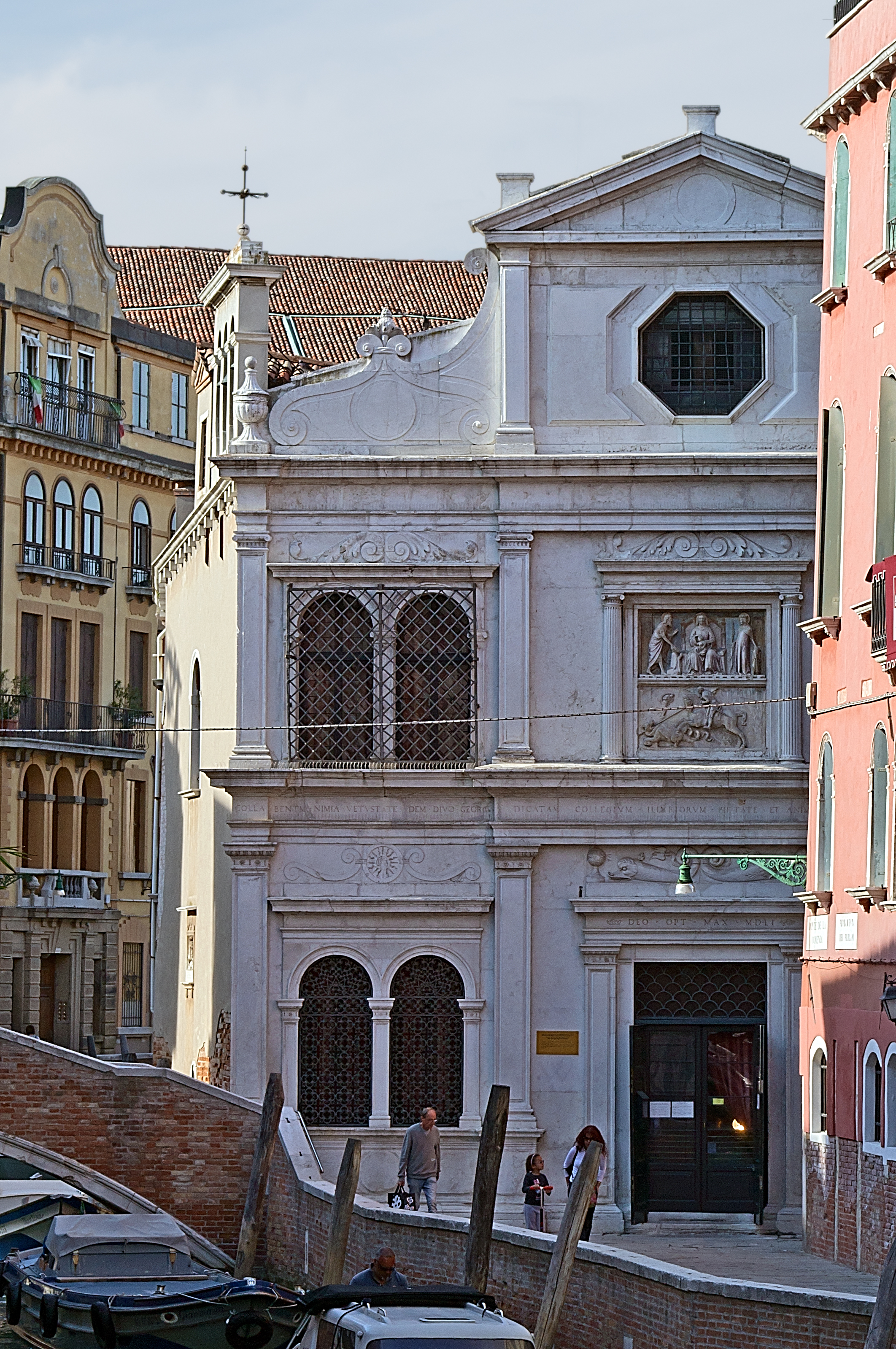 Scuola di San Giorgio degli Schiavoni, Venice. Facade.